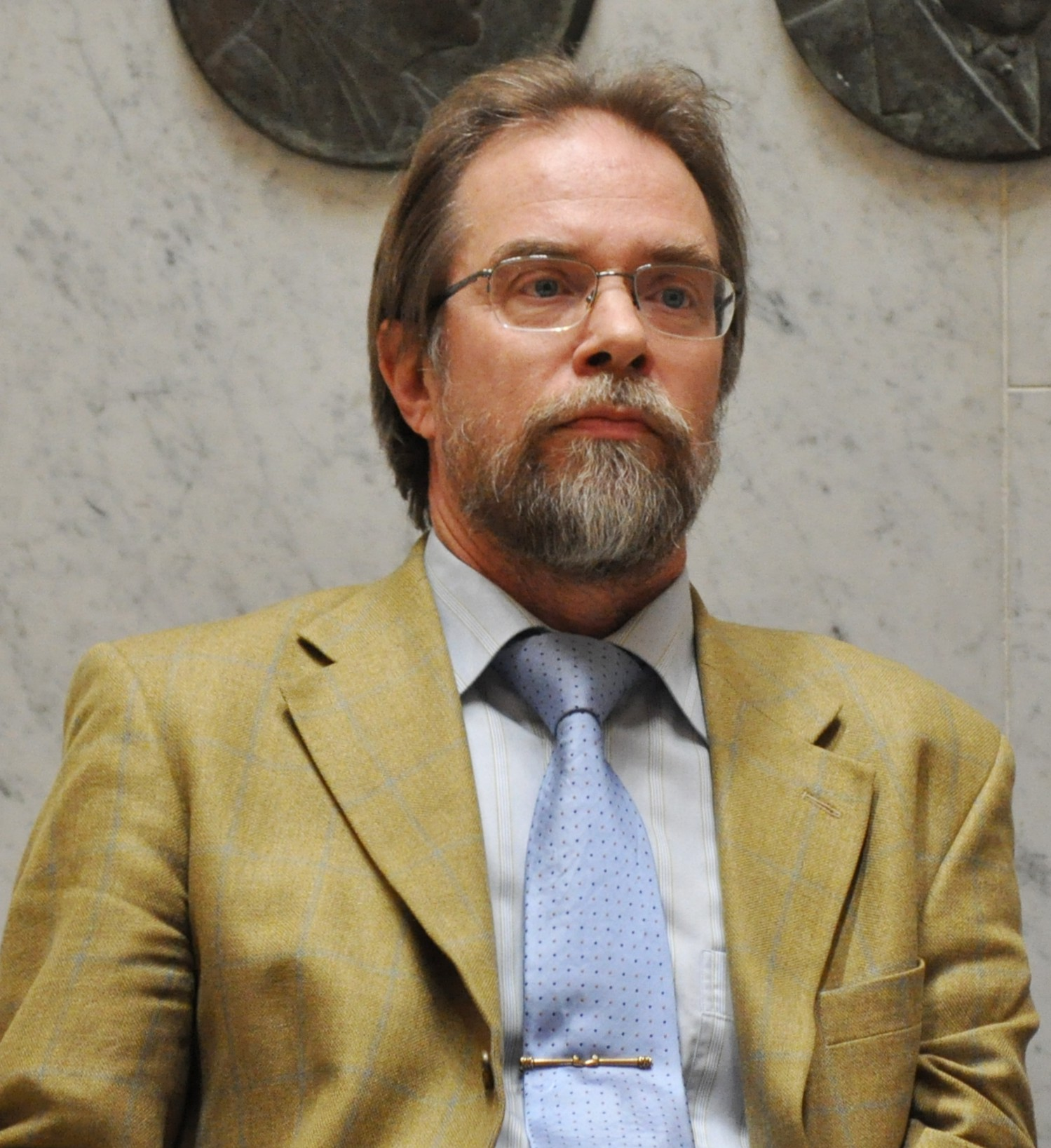 Ilkka Hanski, Finnish ecologist, Helsinki, January 2009.